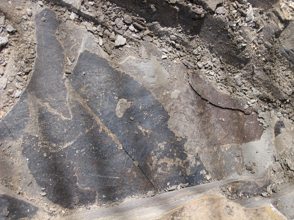 15 million year old leaves at Clarkia, Idaho. The plant remnants in the rock layers here are not fully fossilized, so scientists from across the country visit and can still extract DNA. Uploaded on August 14, 2008 by c'estbonne (Bonnie)